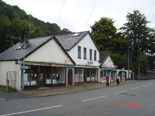 Dolgarrog village shops. The post office and shops at the centre of Dolgarrog in the Conwy Valley